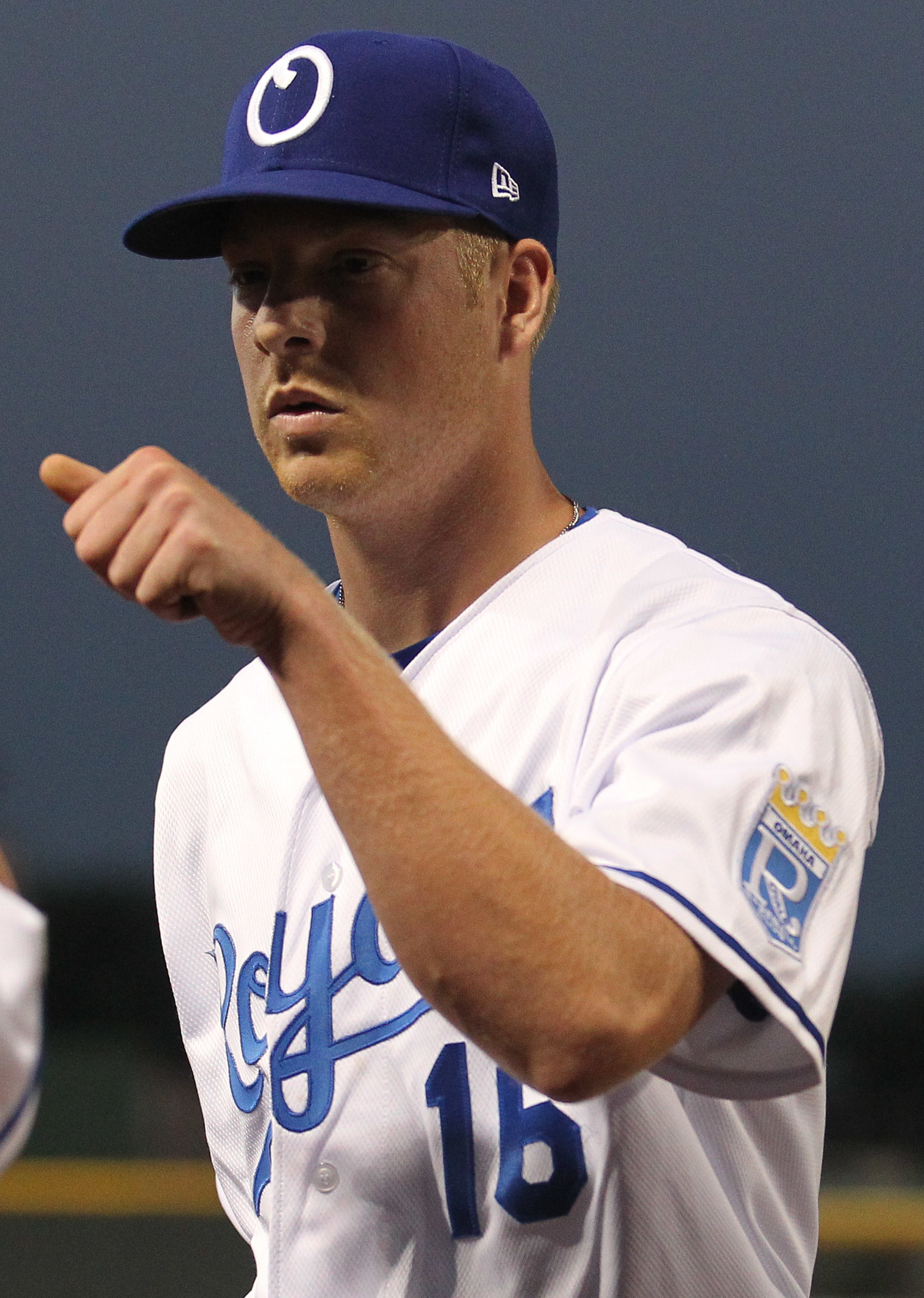 Richard Lovelady with the Omaha Storm Chasers during a 2018 game at Werner Park in Omaha